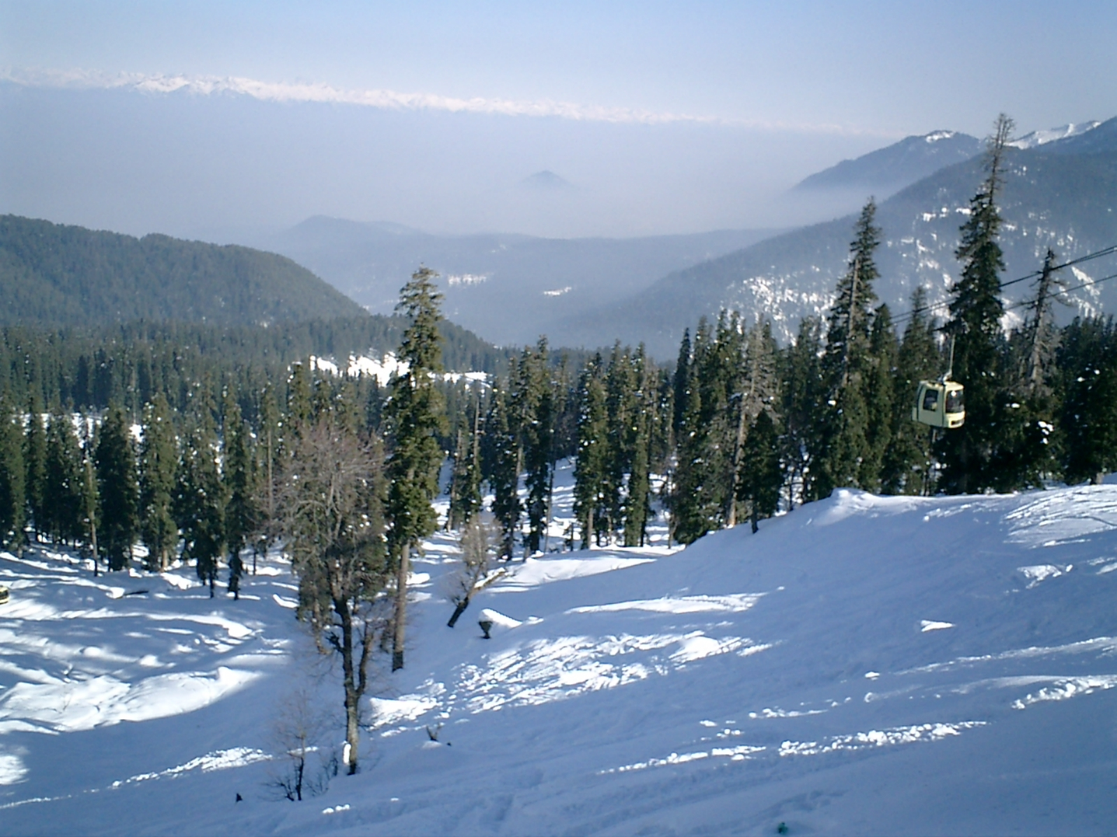 View from the top of Gulmarg's piste. This is also the first stop of the ski lift, which has a further second stop.